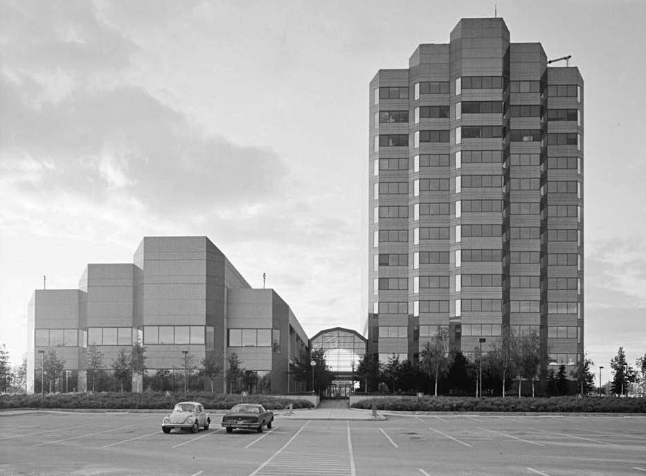 The BP Exploration Building in Anchorage, Alaska, looking south. Photo taken summer 1991 for the Historic American Buildings Survey